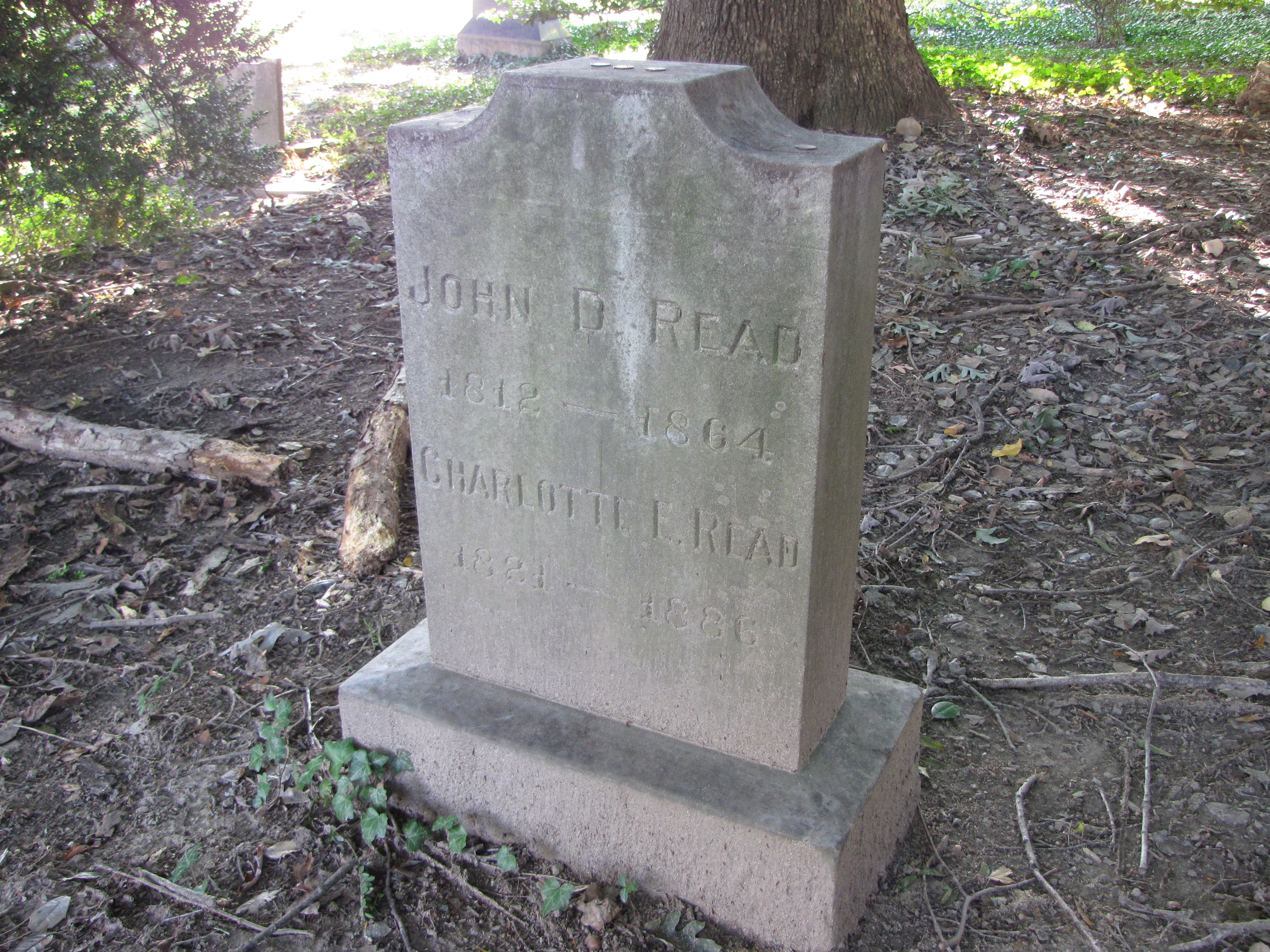 A photo of the gravestone of John D Read, lay preacher and abolitionist, located in cemetery of Falls Church Episcopal Church.